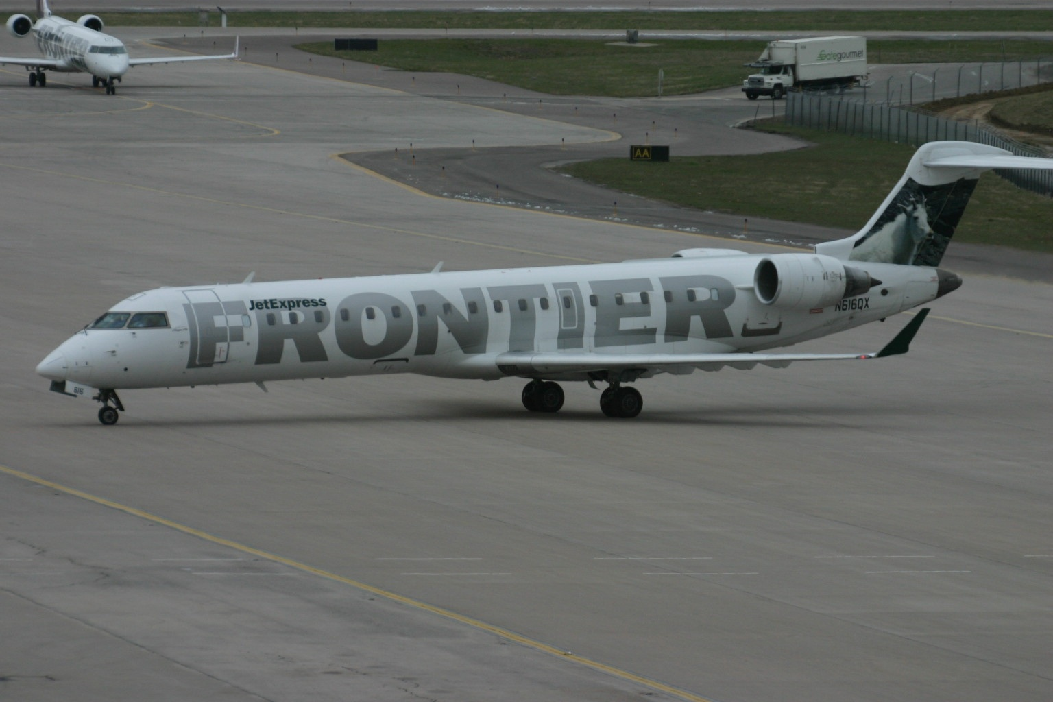 At Denver International